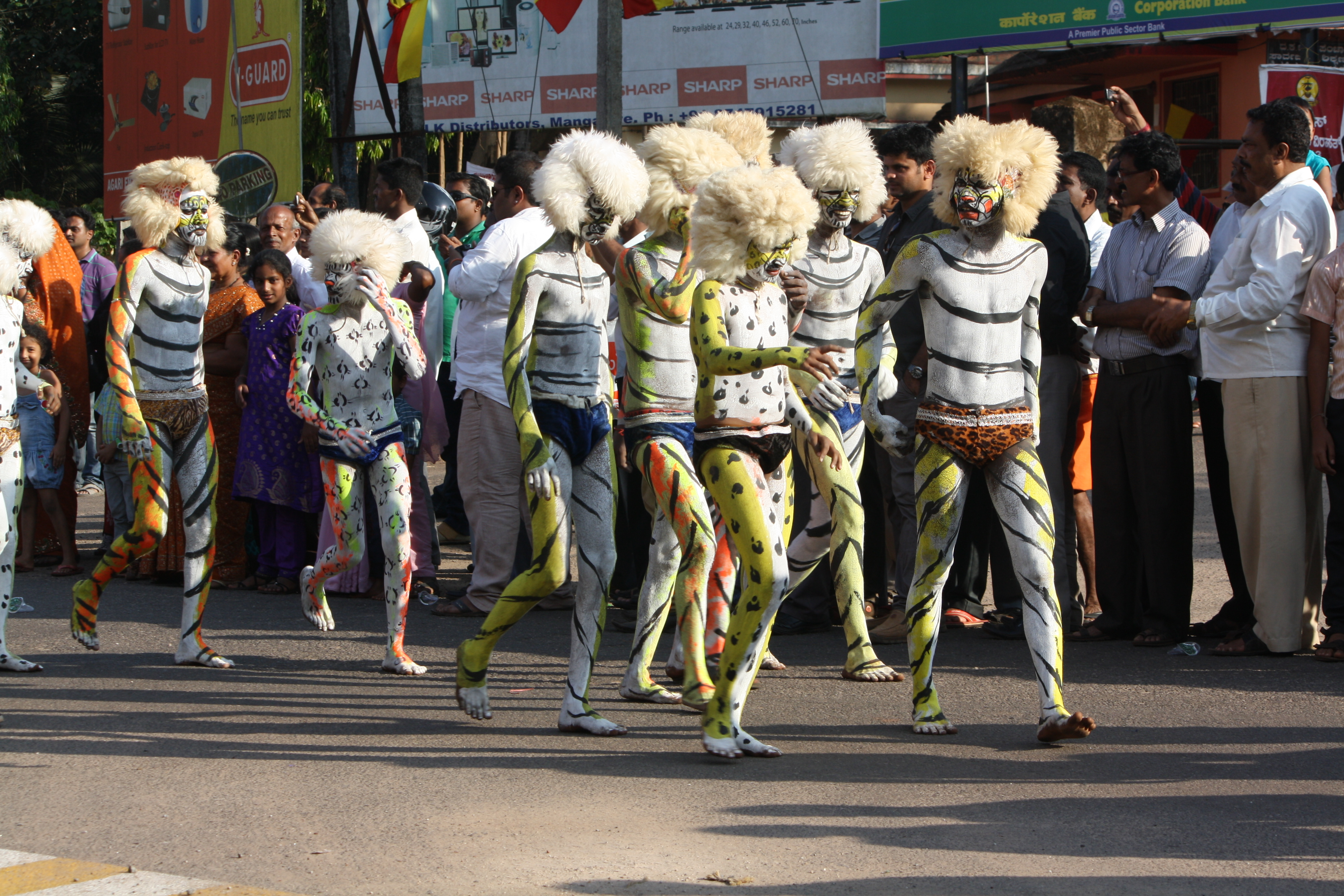 Huli Vesha, a kind of folk performance from Karnataka, India ಕನ್ನಡ: ಕರ್ನಾಟಕದ ಜಾನಪದ ಕಲೆ ಹುಲಿ ವೇಷ